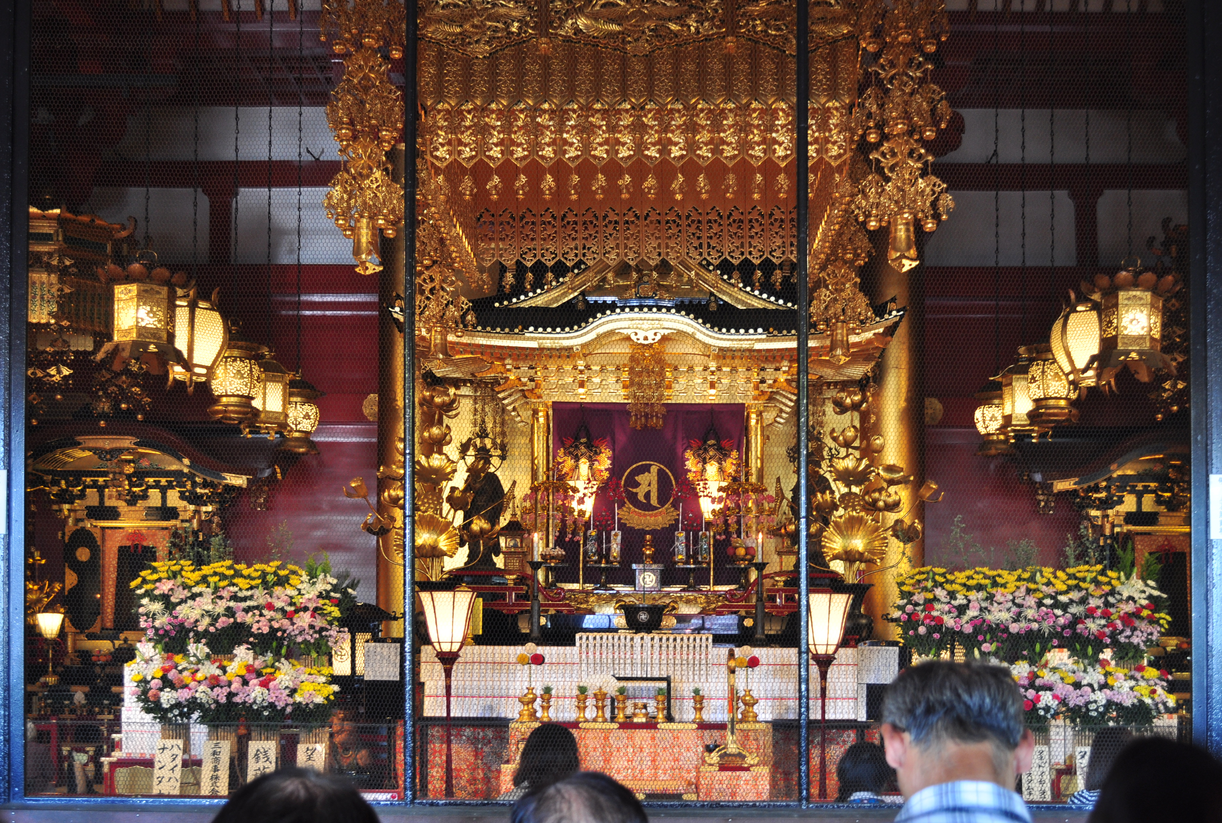 Asakusa, Tokyo, Japan.